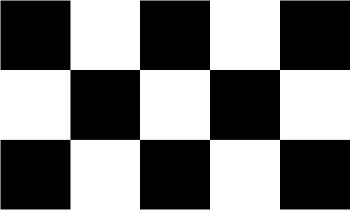 Sillitoe tartan pattern in black and white